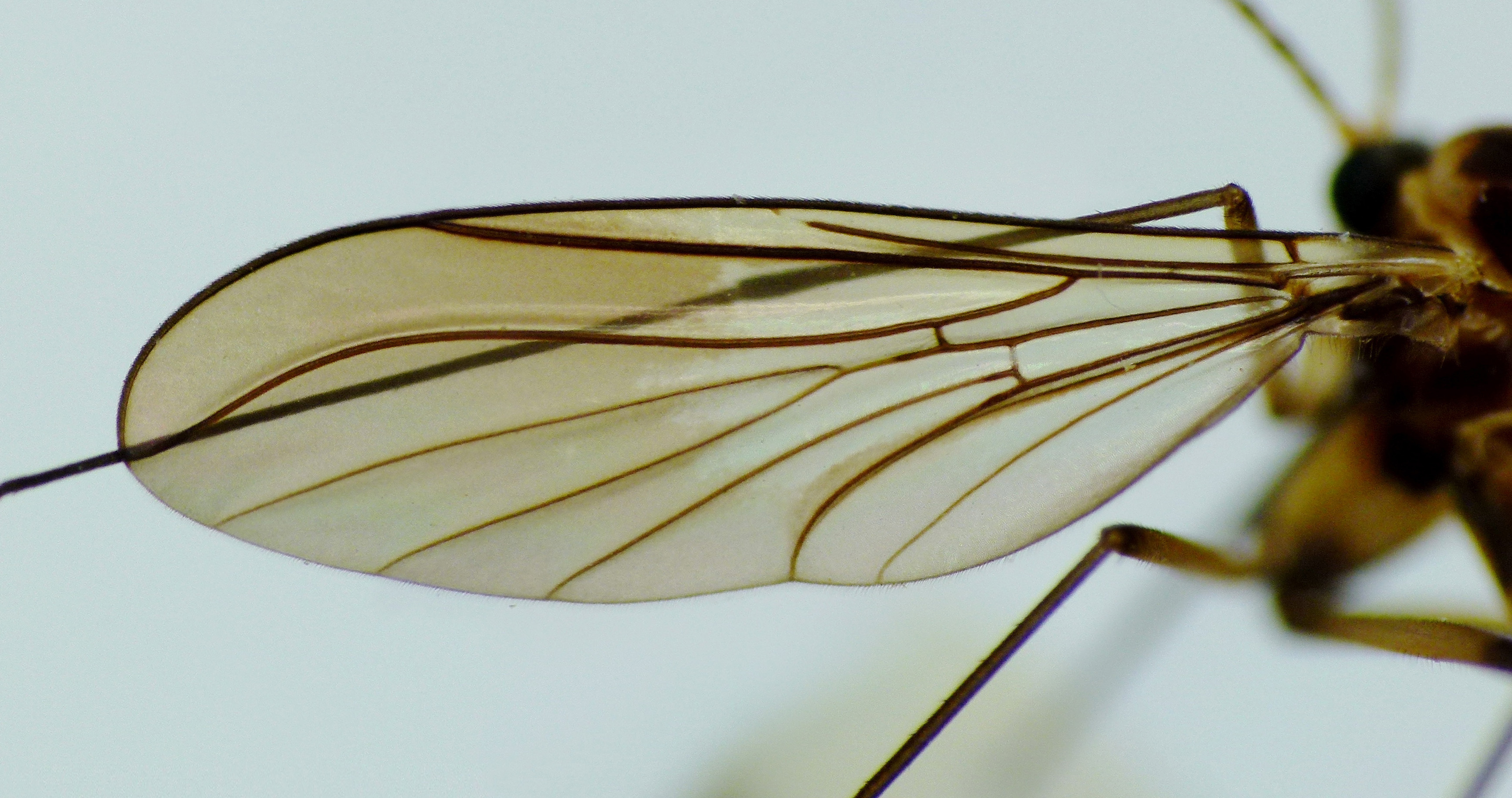 Lateral view of adult Keroplatidae: Arachnocampa luminosa - OMNZ IV106827Arachnocampa luminosa